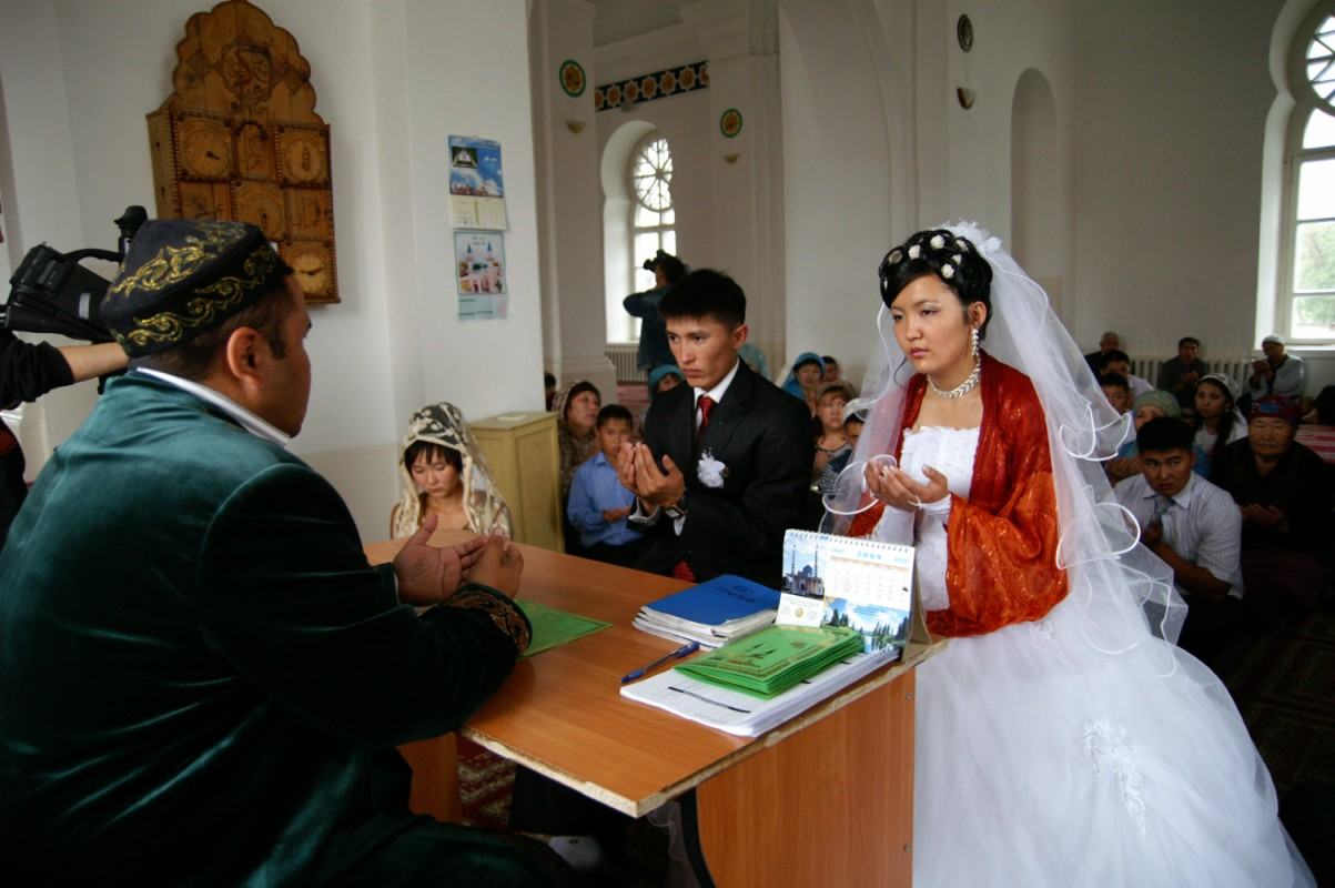 Muslim wedding at a mosque in Semei. Kazakhs are not very religious. This couple couldn't even remember the shahadah. The imam had to remind them of the words!